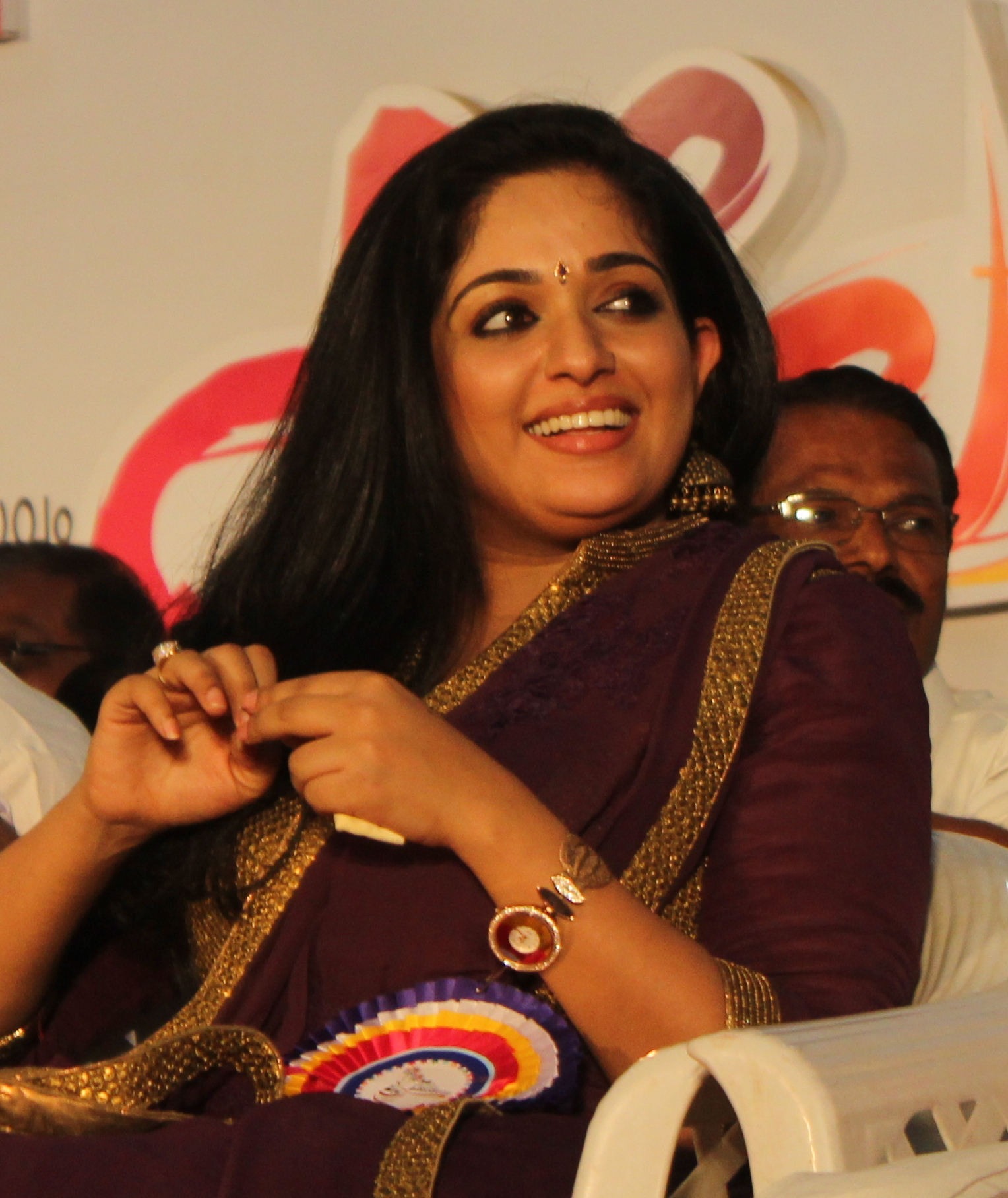 Kavya Madhavan in the closing ceremony of 54th Kerala School Kalolsavam